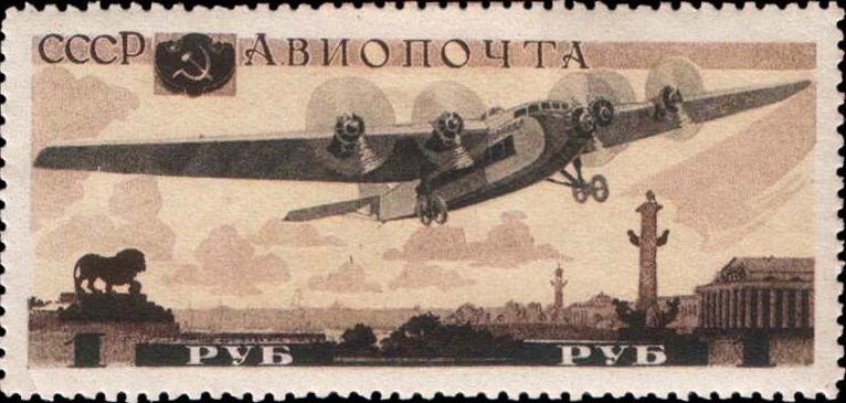 The Soviet Union 1937 CPA 566 stamp (Tupolev ANT-14). Seriesː Air. Soviet Aviation